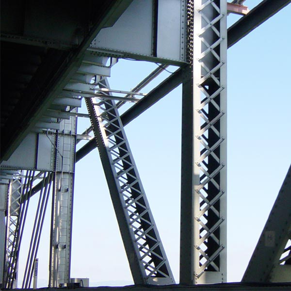 Detail of eastern span of the San Francisco-Oakland Bay Bridge showing obsolete lattice beams. This entire portion is to be replaced. These are hot riveted, which results in a relatively soft join which may fail under extreme stress. In the western span most of these have been removed and replaced with high strength bolts. In addition the lattice angle iron pieces have been replaced with steel plate. To the left of the image the more distant steel eyebar rods without lacing are resisting only tension; they are the major tensile elements of one of the two cantilever structures. Above, the deep beams support the upper deck. When the bridge was converted to five lanes in each direction these beams were strengthened to support the additional weight of trucks. A small portion of the lower chord reenforcement may be seen at the bottom of the two beams in the image.